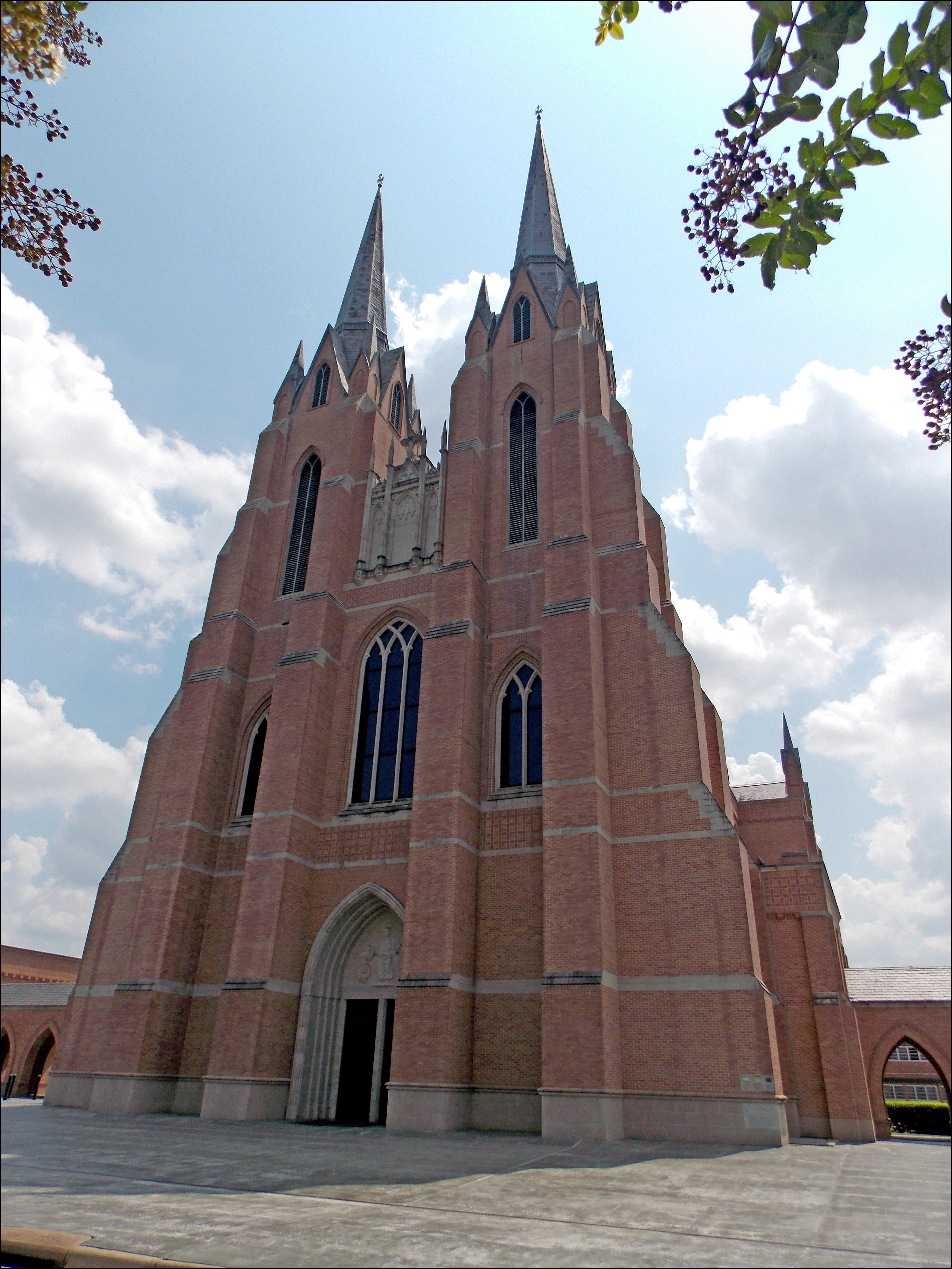 St. Martin's Episcopal Church in the Galleria area of Houston, Texas.